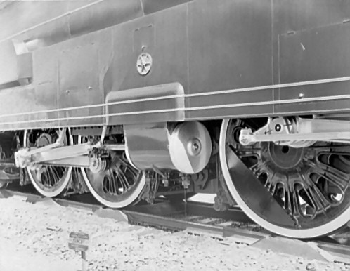 Detail of the cylinders and driving wheels of Pennsylvania Railroad S1 6-4-4-6 steam locomotive at the New York World's Fair, July 15, 1939. LOC call number LC-G613-35558.